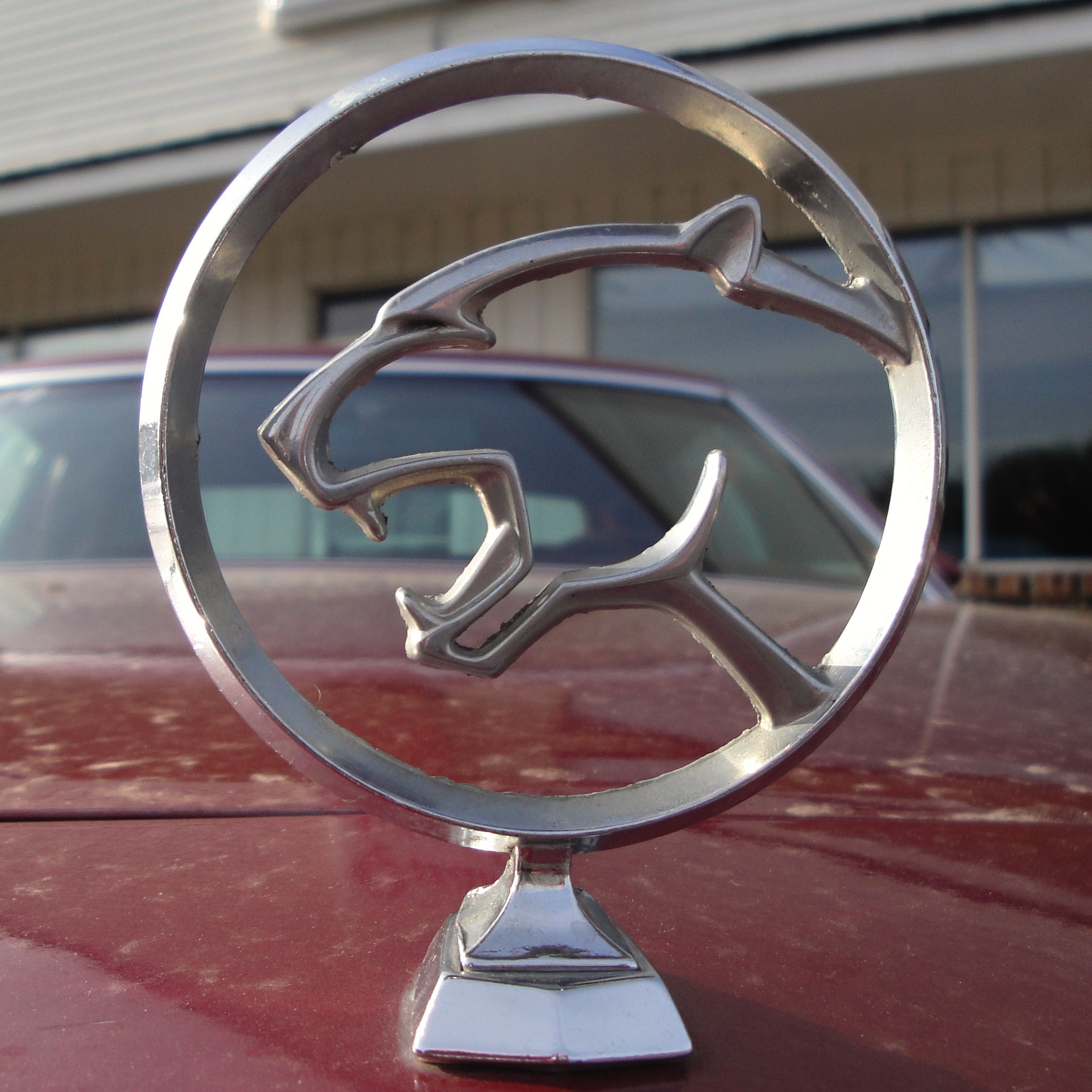 79 Mercury Cougar XR7